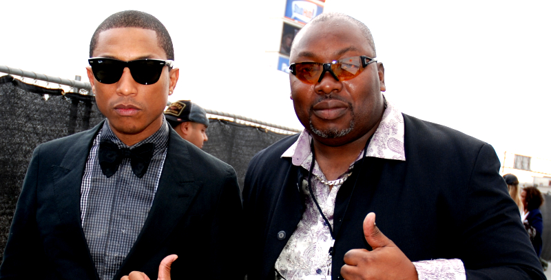 BLAKPROPHETZ (SURE SHOT) WITH PHARRELL - BET AWARDS